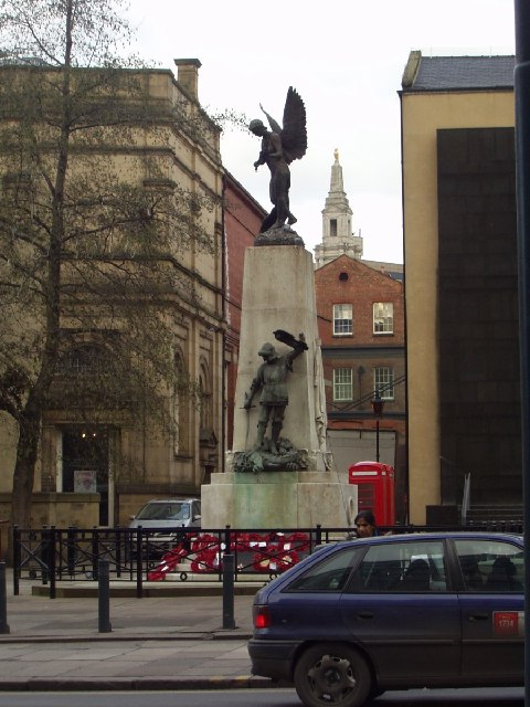 Cenotaph, The Headrow, Leeds. The Cenotaph is in Victoria Gardens on The Headrow, but was originally in City Square, where it was unveiled by the Earl of Harewood in 1922. It was moved in 1936 when City Square was altered. The statues were designed by Henry Charles Fehr, who also designed the war memorial in Colchester, and the statue of Queen Victoria in Hull. At the top is an angel, carrying roses, on this side of the base is St George conquering the dragon, and out of view on the far side, Peace, as a girl dressed in Art Nouveau style. The buildings behind are the Art Gallery on the left, one of the 2 towers of Leeds Civic Hall (with golden owl), and the Henry Moore Institute on the right.